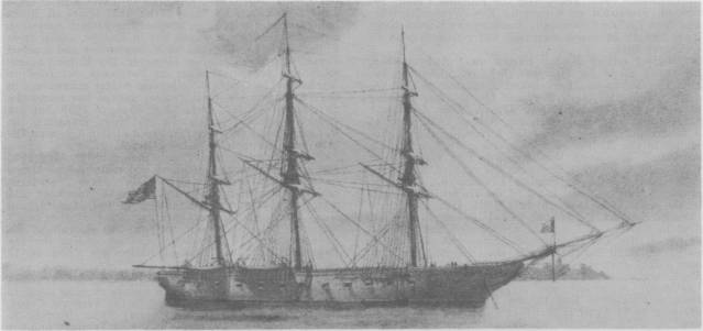 Artist's rendition of sailing frigate USS Savannah